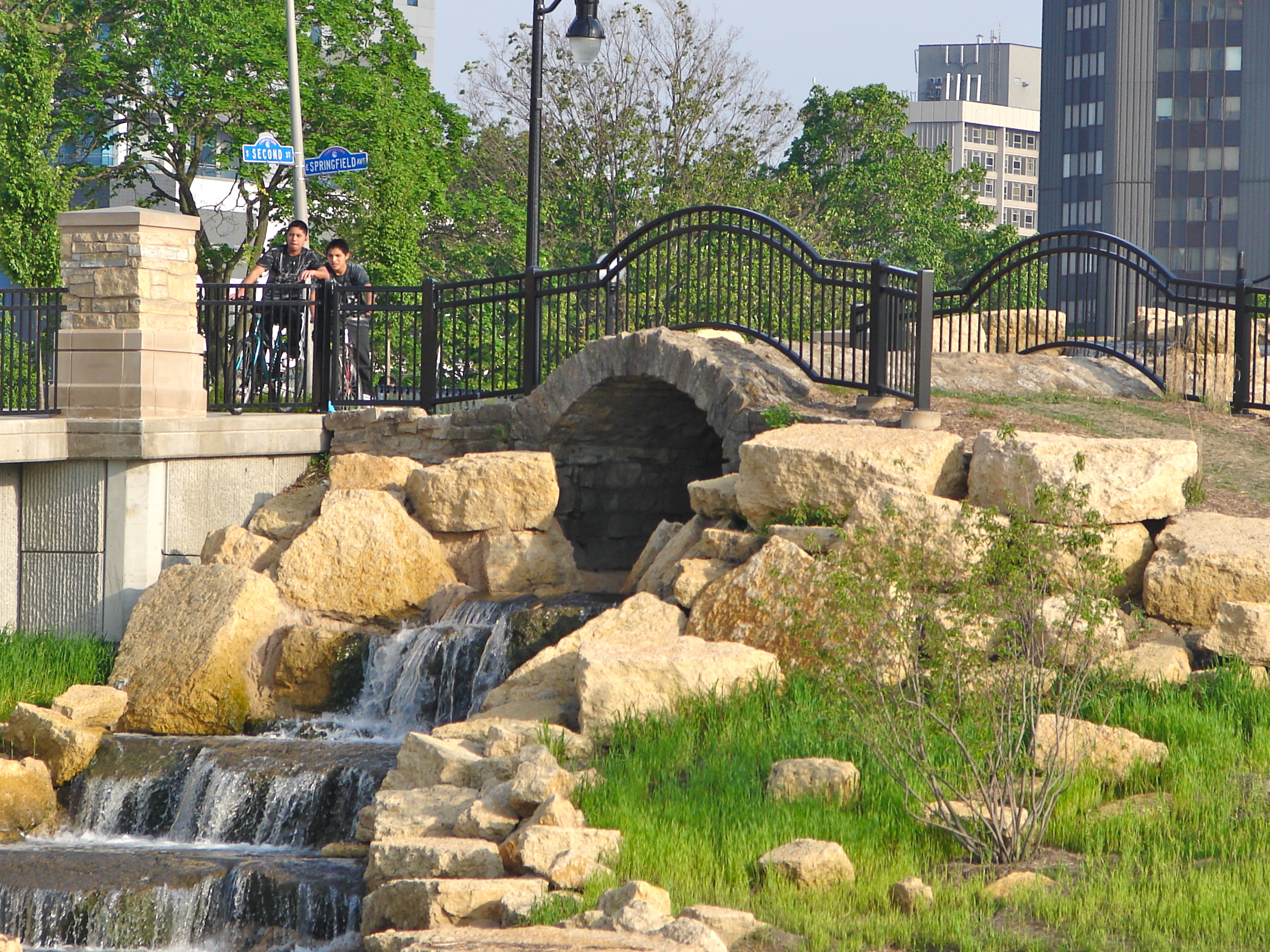 Stone Arch Bridge on the NRHP since May 14, 1981. At NW corner of Springfield Ave. and 2nd St., Champaign, Champaign County, Illinois. Underwent reconstruction and/or destruction over the last 2 years. Very strange story, according to my understanding. "Bridge" was built in the 1870s but was more like a culvert or a pipe, 10 feet long by 100 feet wide, eventually turning the Boneyard Creek into an underground waterway at this point. The bridge may have saved the old city of Urbana, by connecting it to the newer railroad city of Champaign, but was part of a really messed up Boneyard Creek. Over the last 20 years Champaign-Urbana has cleaned up the Boneyard and put in flood-control parks, etc. including this site, Scott Park (just SW) and the Engineering Quad. This site, recently finished is a very impressive flood control park, but the "bridge" is only a remnant, say 10 feet long by 10 feet wide. Better check out this story, since I'm only beginning to figure it out.